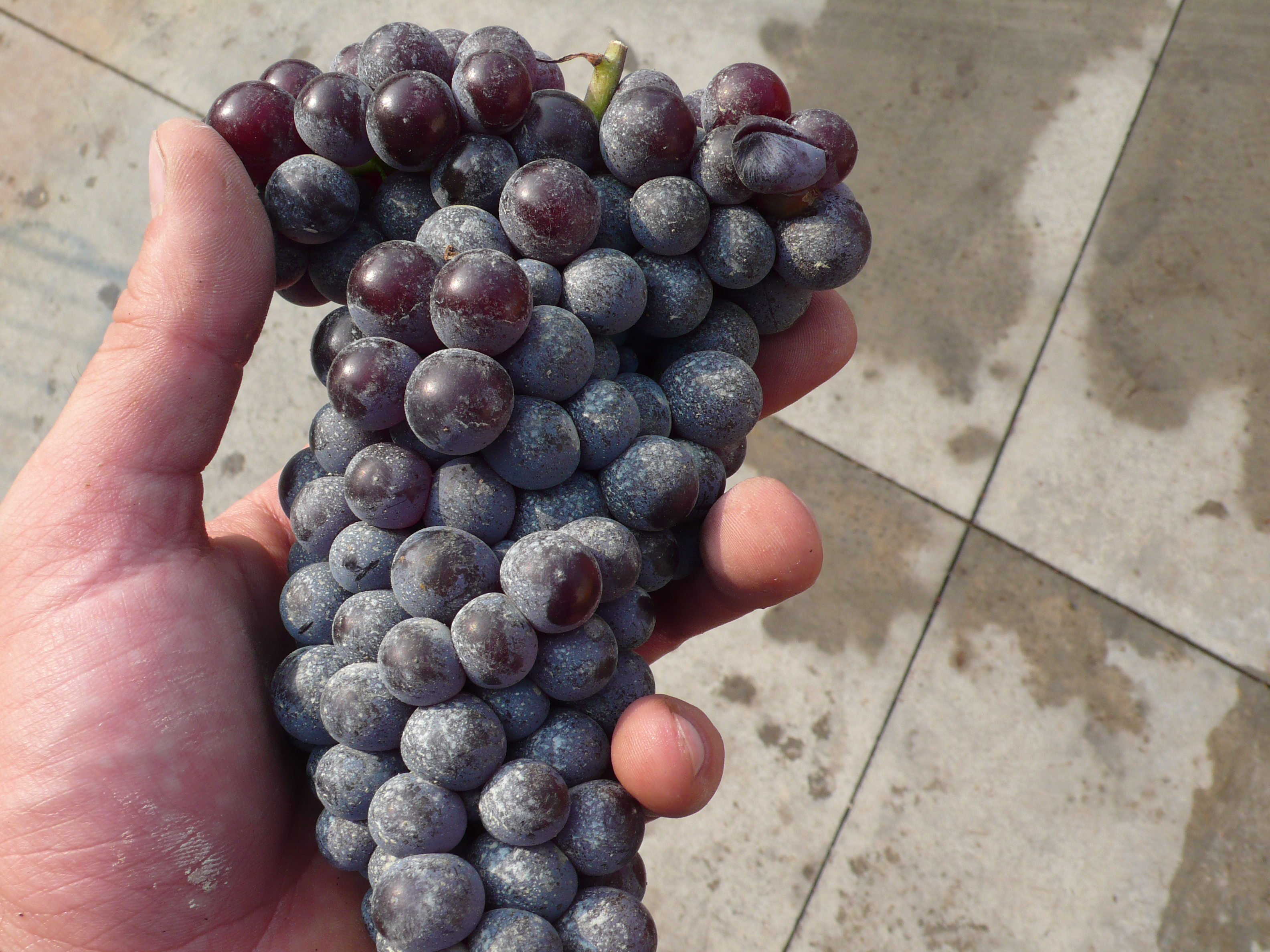 The Italian grape variety Nebbiolo known for the Piedmont wine of Barolo.